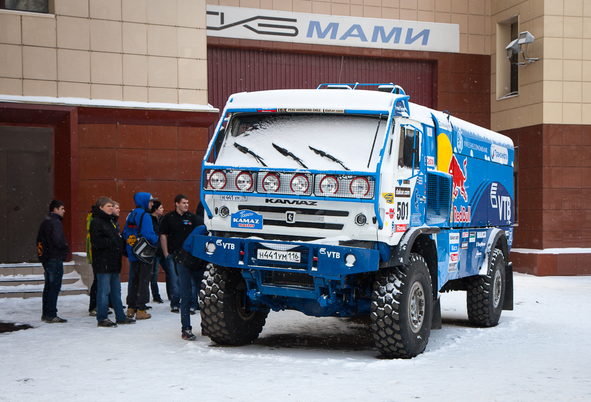 Front view of a KamAZ racing trucks.